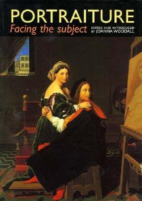 Portraiture Facing the Subject by Joanna Woodall book cover showing Ingres painting Raphael and Fornarina, c. 1814.